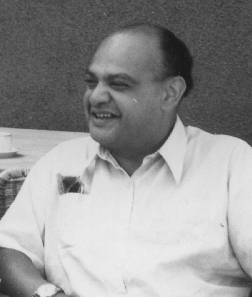 Grzegorz Grzeban (Bagdasarian) (28.07.1902-21.10.1991) Polish study composer